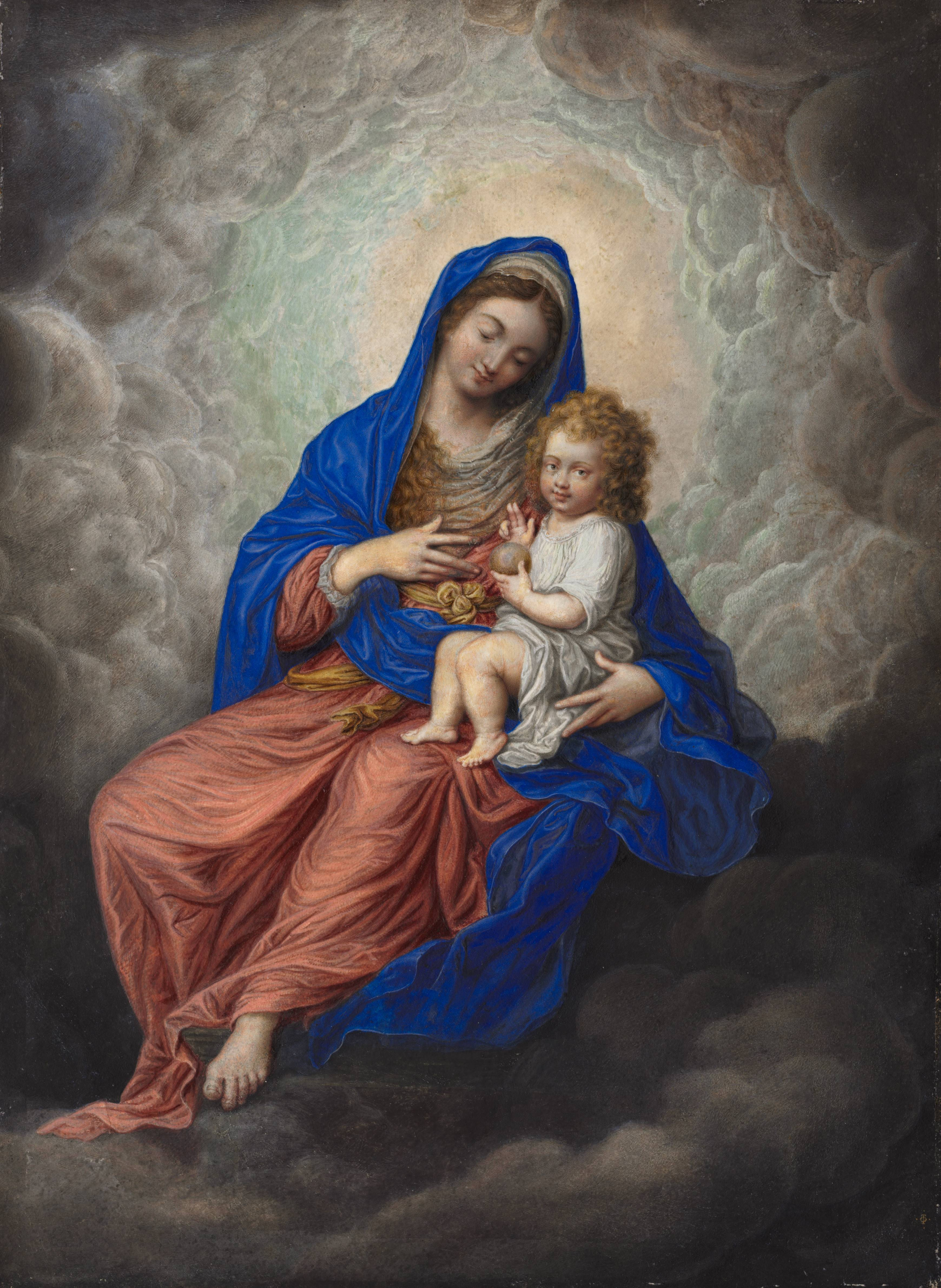 Madonna and Child in Glory